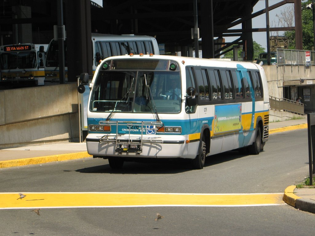 MBTA NovaBUS RTS #0276 (Crosstown Bus branding) on the CT2 route at Sullivan Station in July 2007